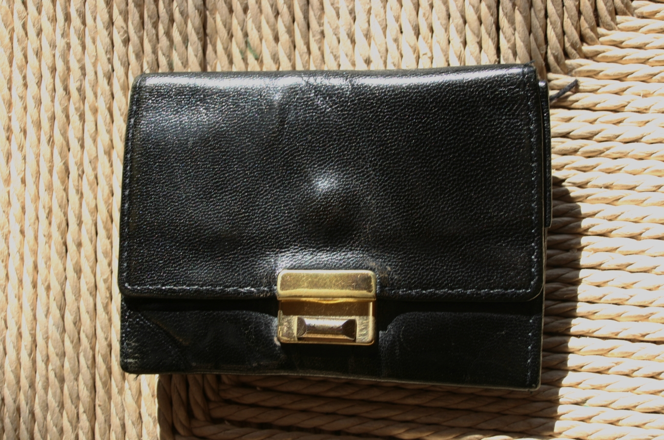 A slightly old-fashioned purse.